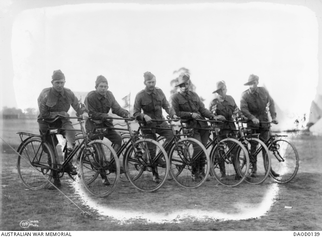 Members of the Australian Cyclist Corps at Broadmeadows, Victoria, c. January 1915